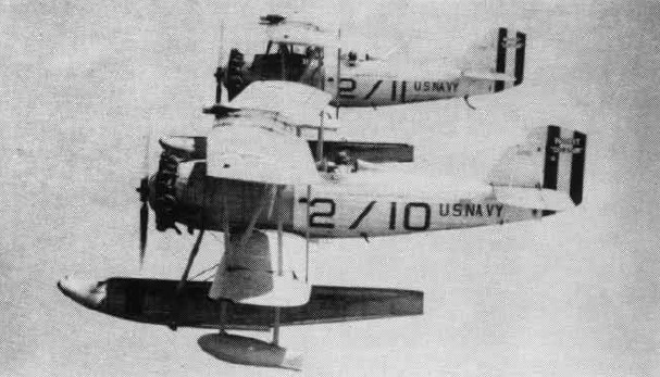 Two U.s. Navy Vought O2U Corsair floatplanes assigned to the battleship USS Florida (BB-30) sometime between 1926 and 1930 (the O2Us were introduced in 1926 and the Florida was decommissioned in February 1931).